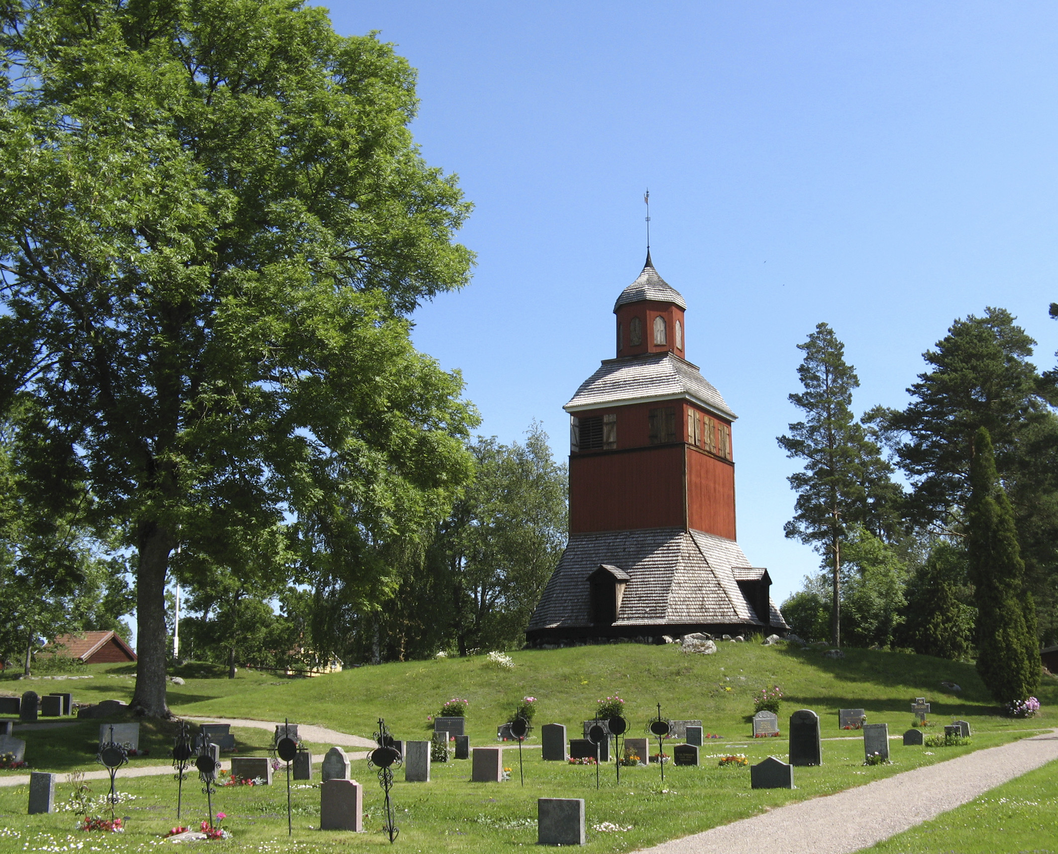 Hökhuvud Church in Uppland, Sweden